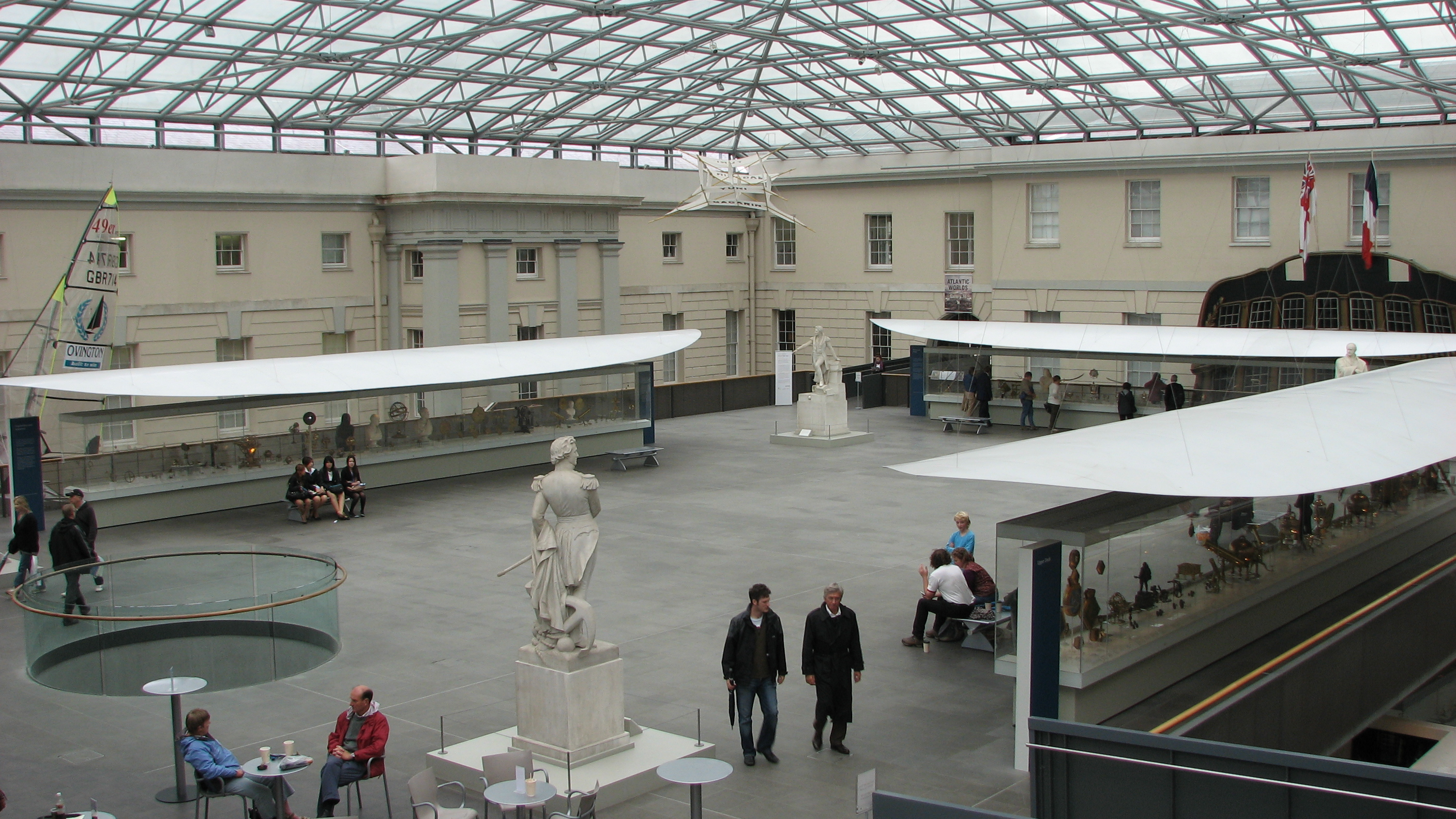 London - September 2008